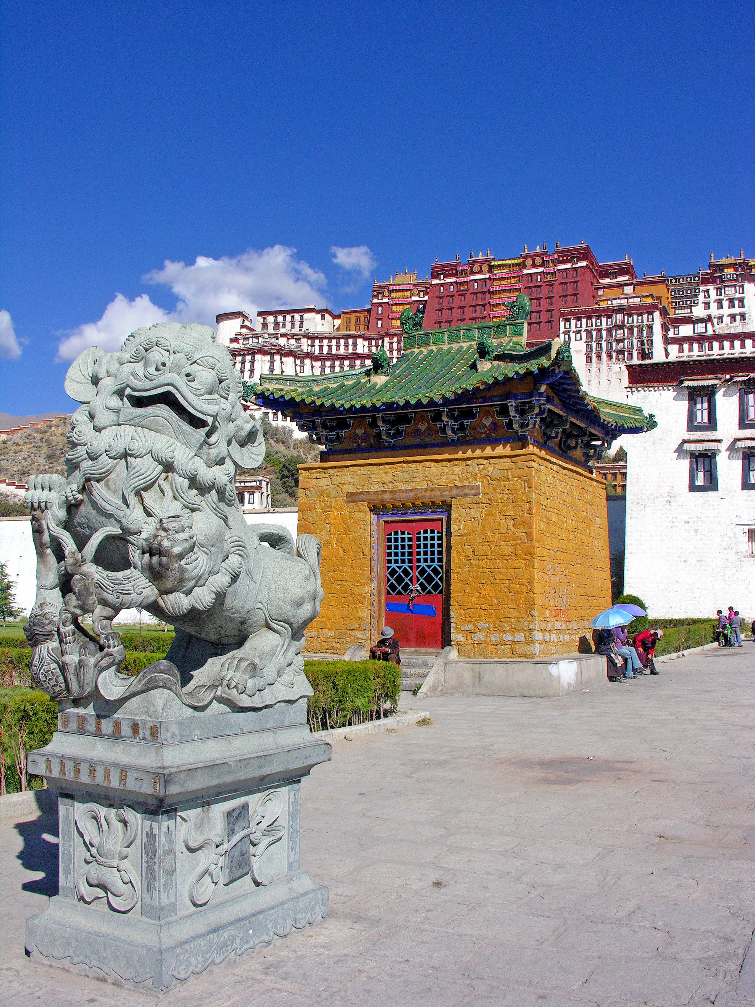 Statue near the roadway before entering the Potala Palace. Lhasa, Tibet